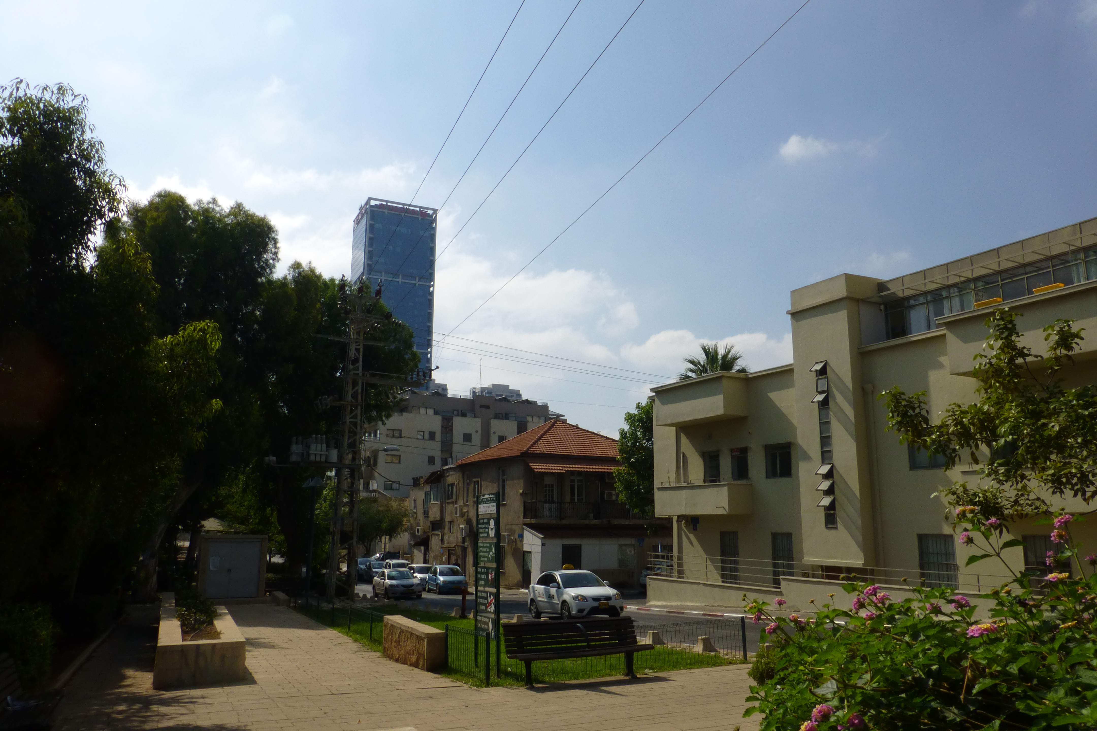 Electra Tower